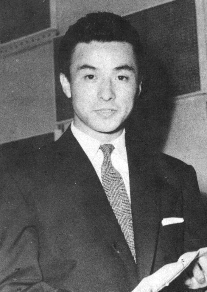 Hashizō Ōkawa II (1929–84) recording his voice for the motion picture Furisode Taihei-ki (1956)